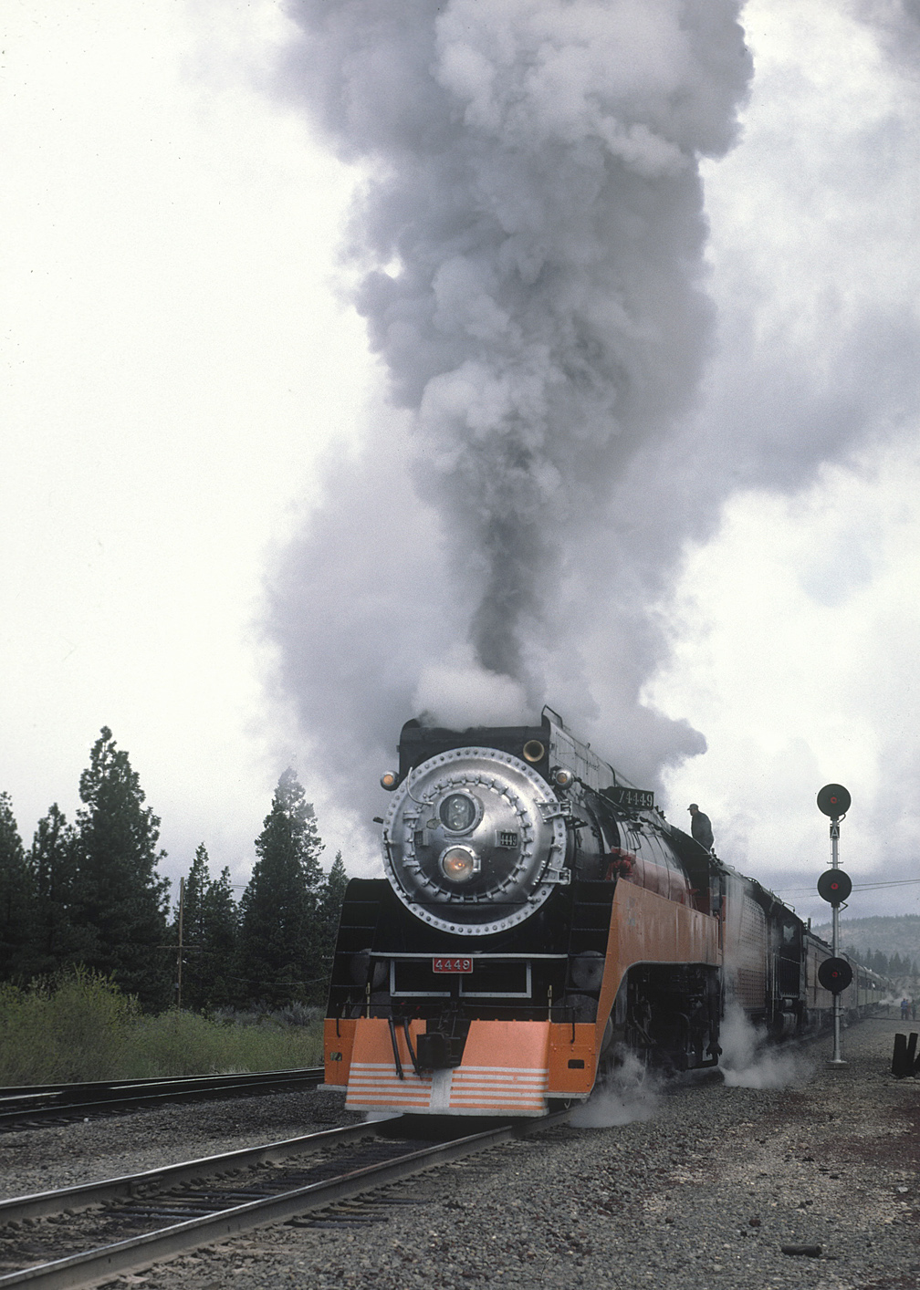 Stopped to take water at Black Butte on the way to Sacramento in April of 1981.